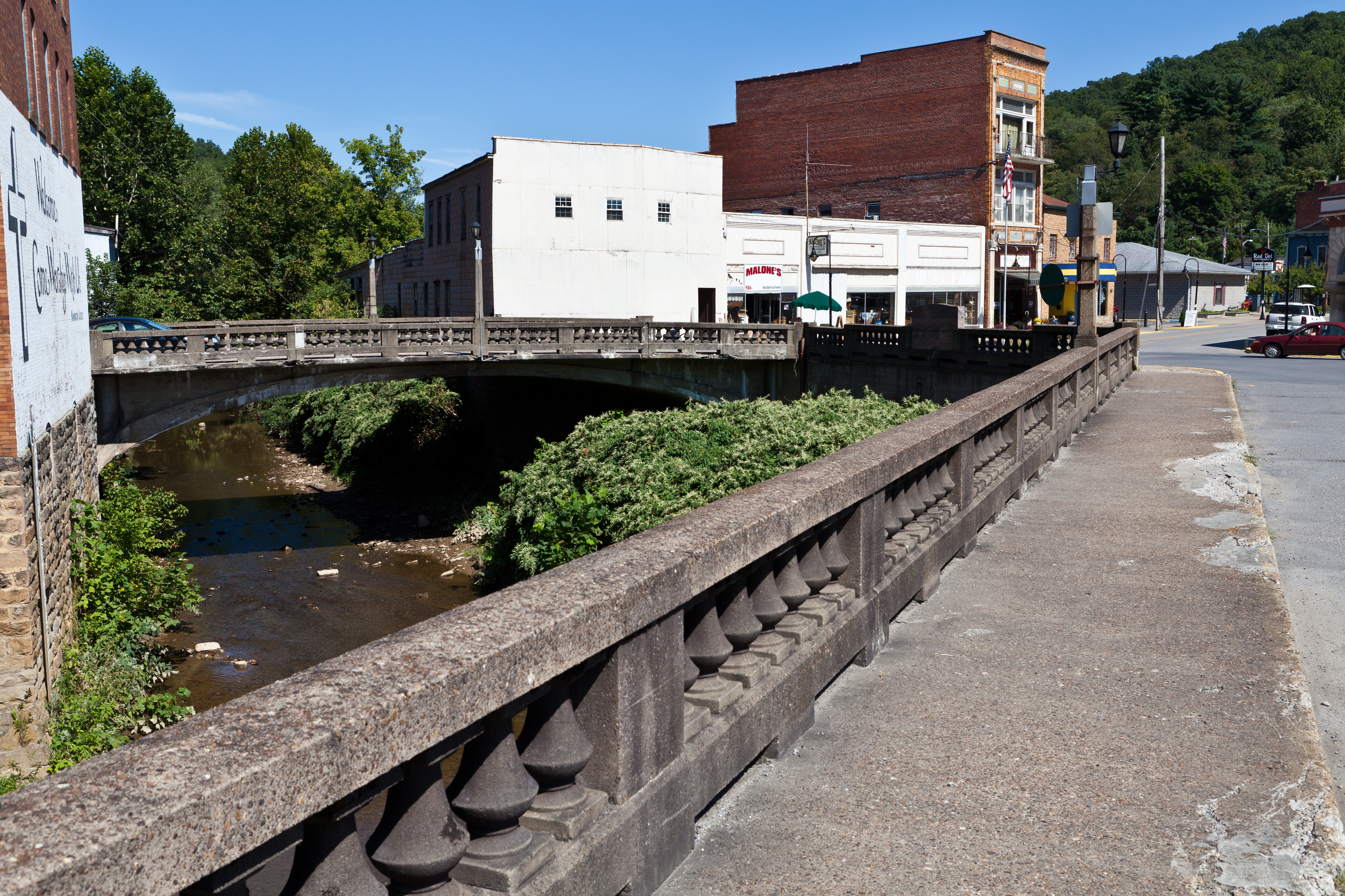 Mannington Historic District, Roughly bounded by High, Clarksburg and Howard Sts. and Buffalo Creek. Photo looking toward Market St from Clarksburg St Bridge.